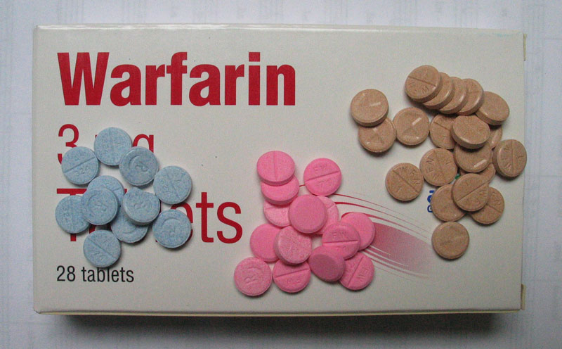 Warfarin tablets, 5, 3 and 1mg, photo by Gonegonegone, taken this date. Pink = 5mg, blue = 3mg, brown = 1mg.